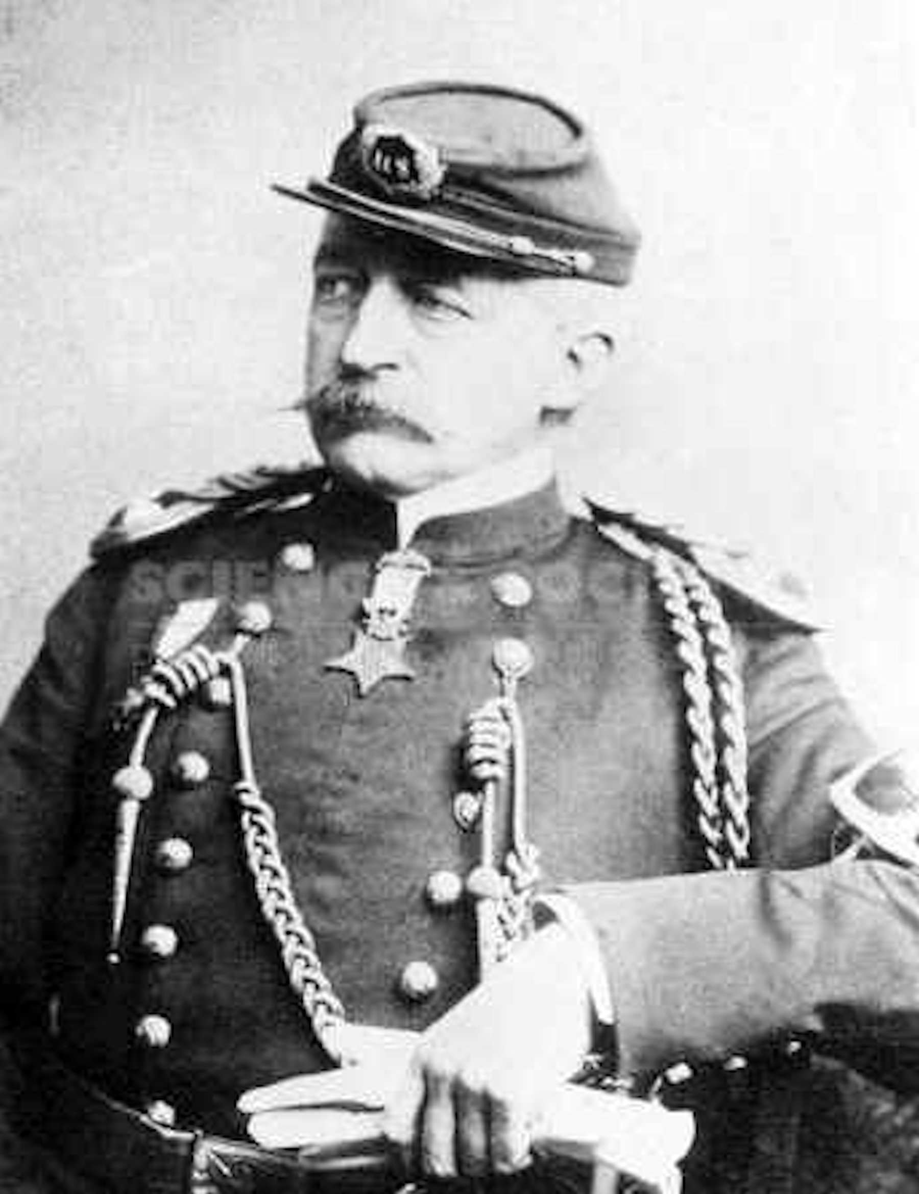 Medal of Honor winner George E. Gouraud